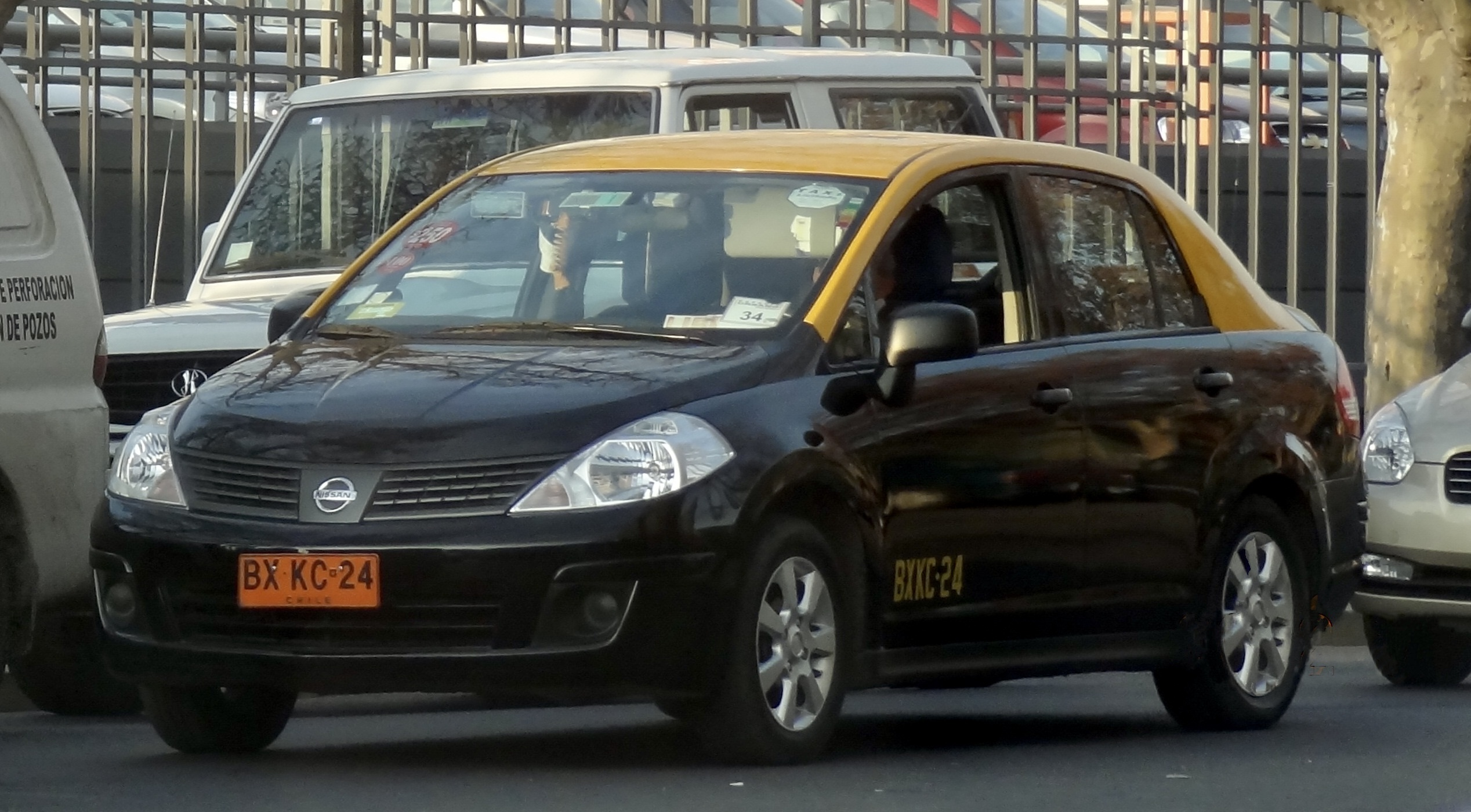 stgo. chile